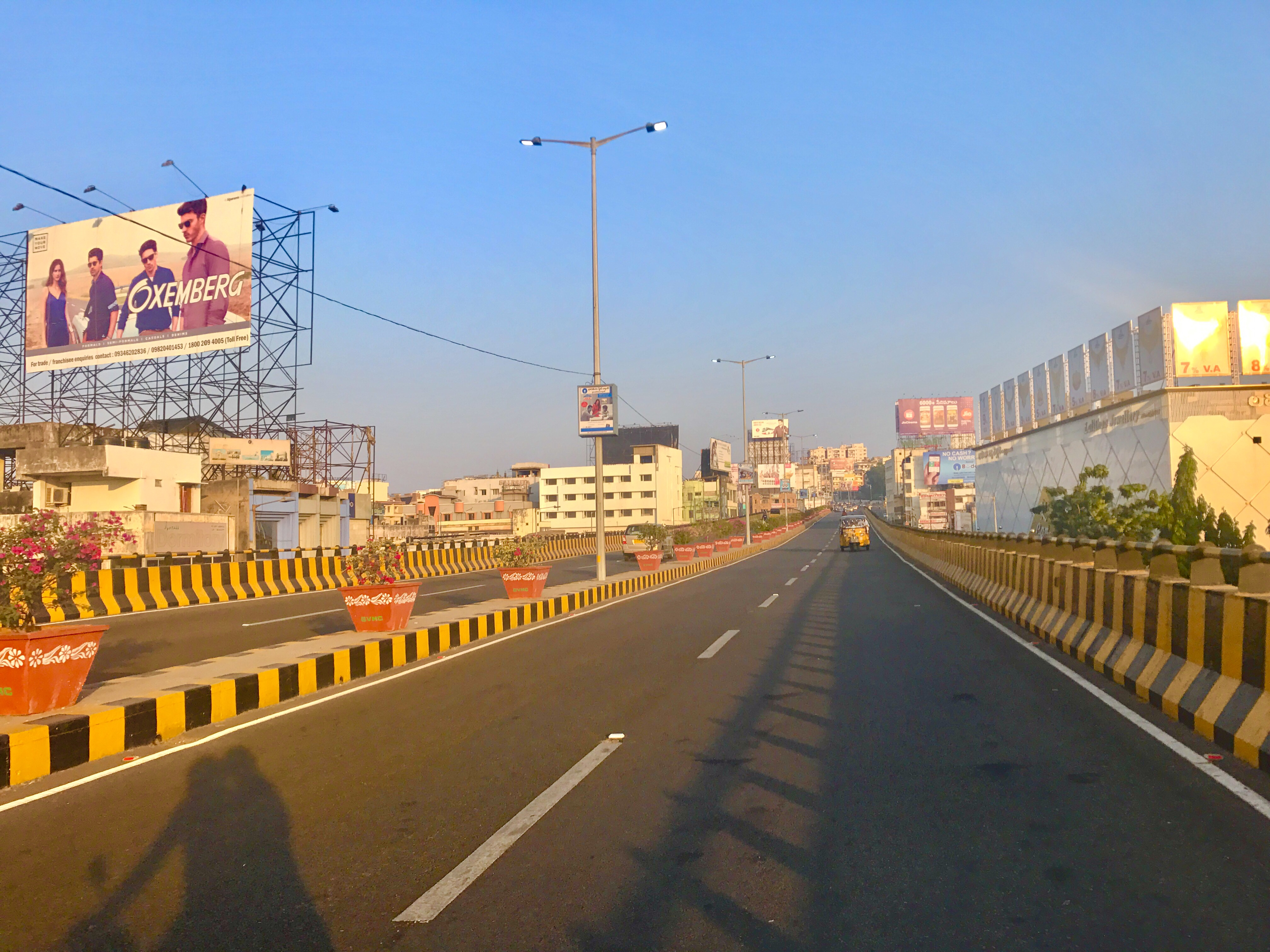 Telugu Thalli flyover in Vizag